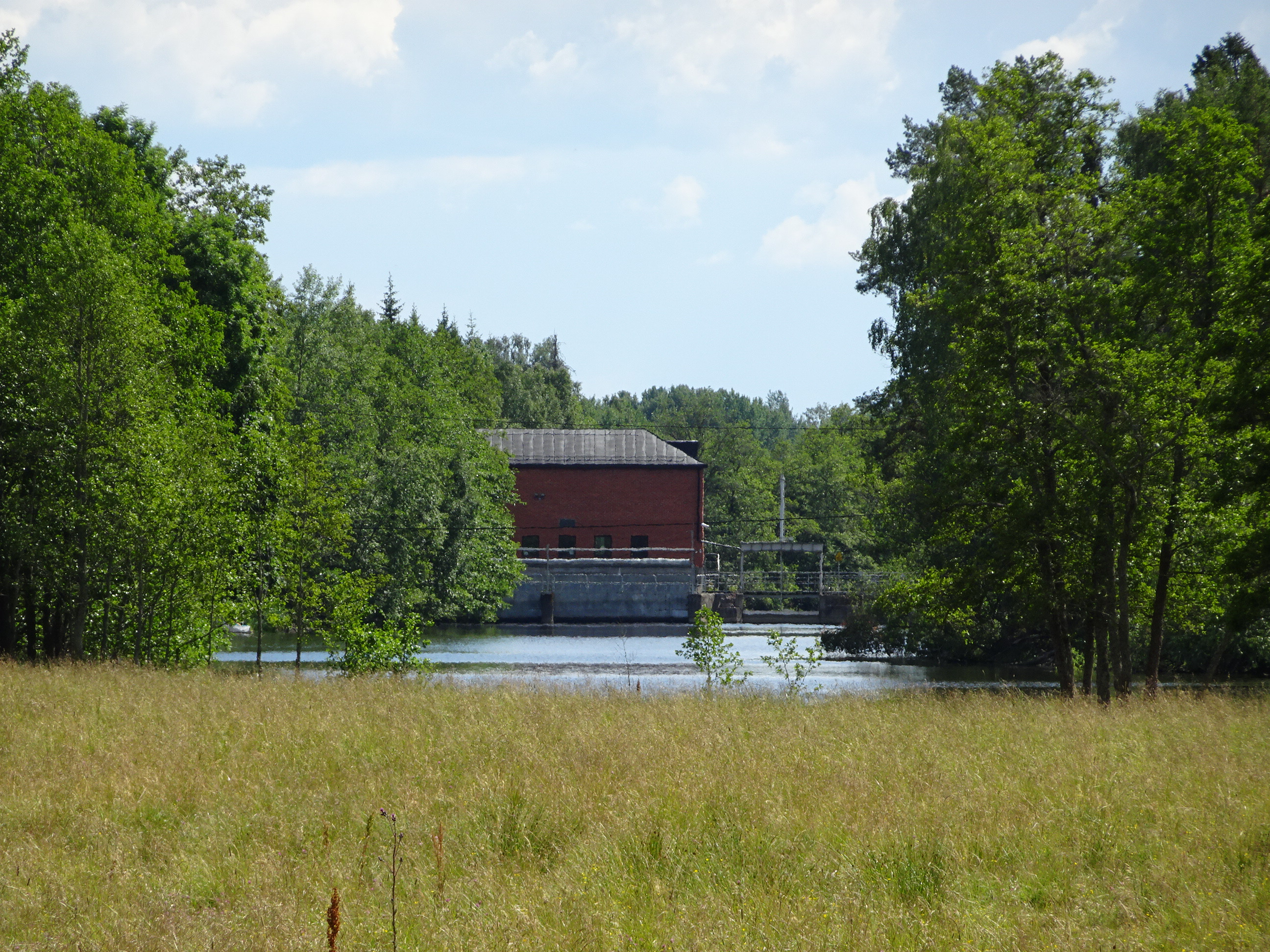 Ålsätra hydroelectric power station in the river Kolbäcksån, north of Hallstahammar, Sweden